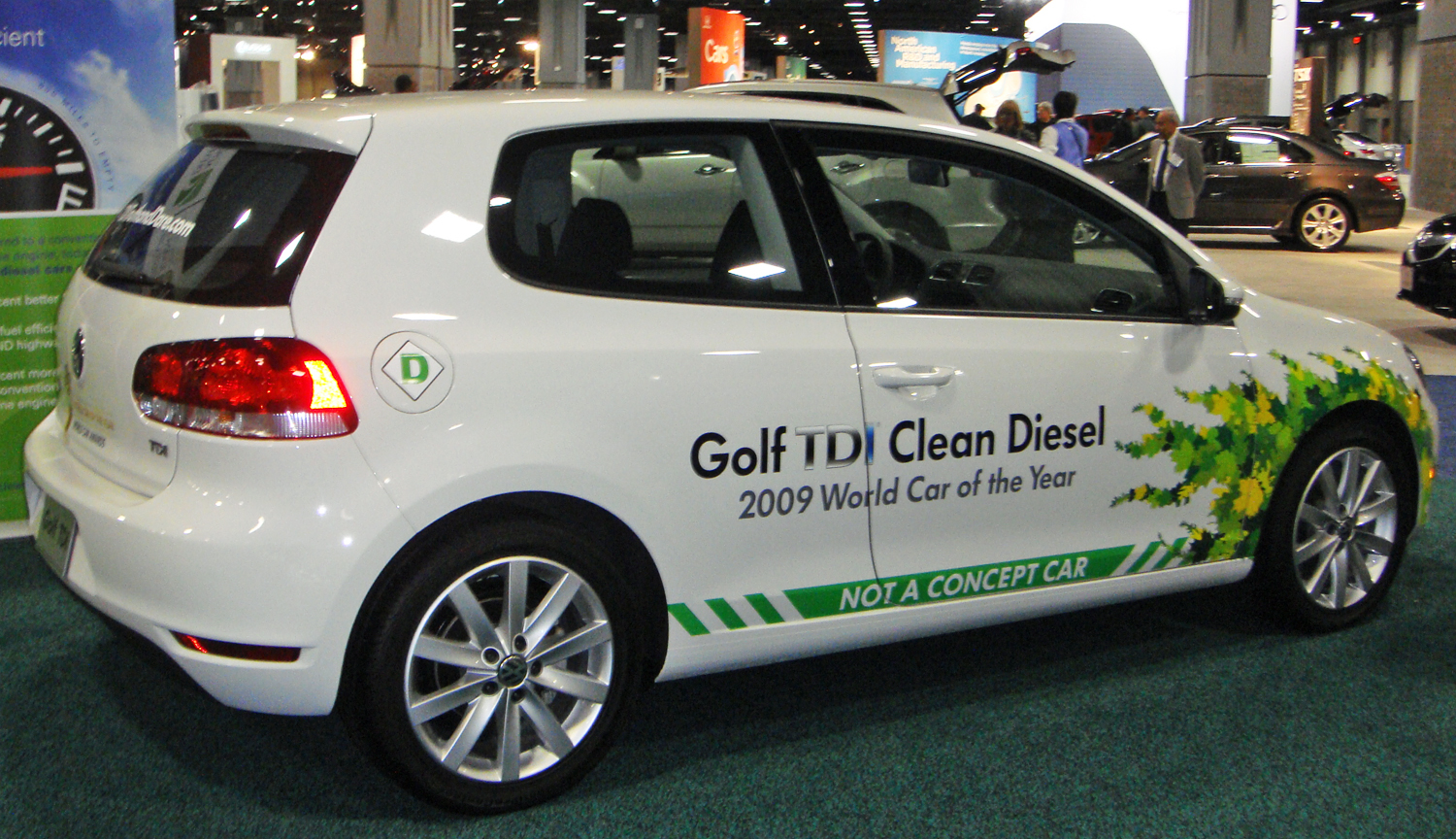 Lateral view VW Golf TDI clean diesel at the 2010 Washington Auto Show